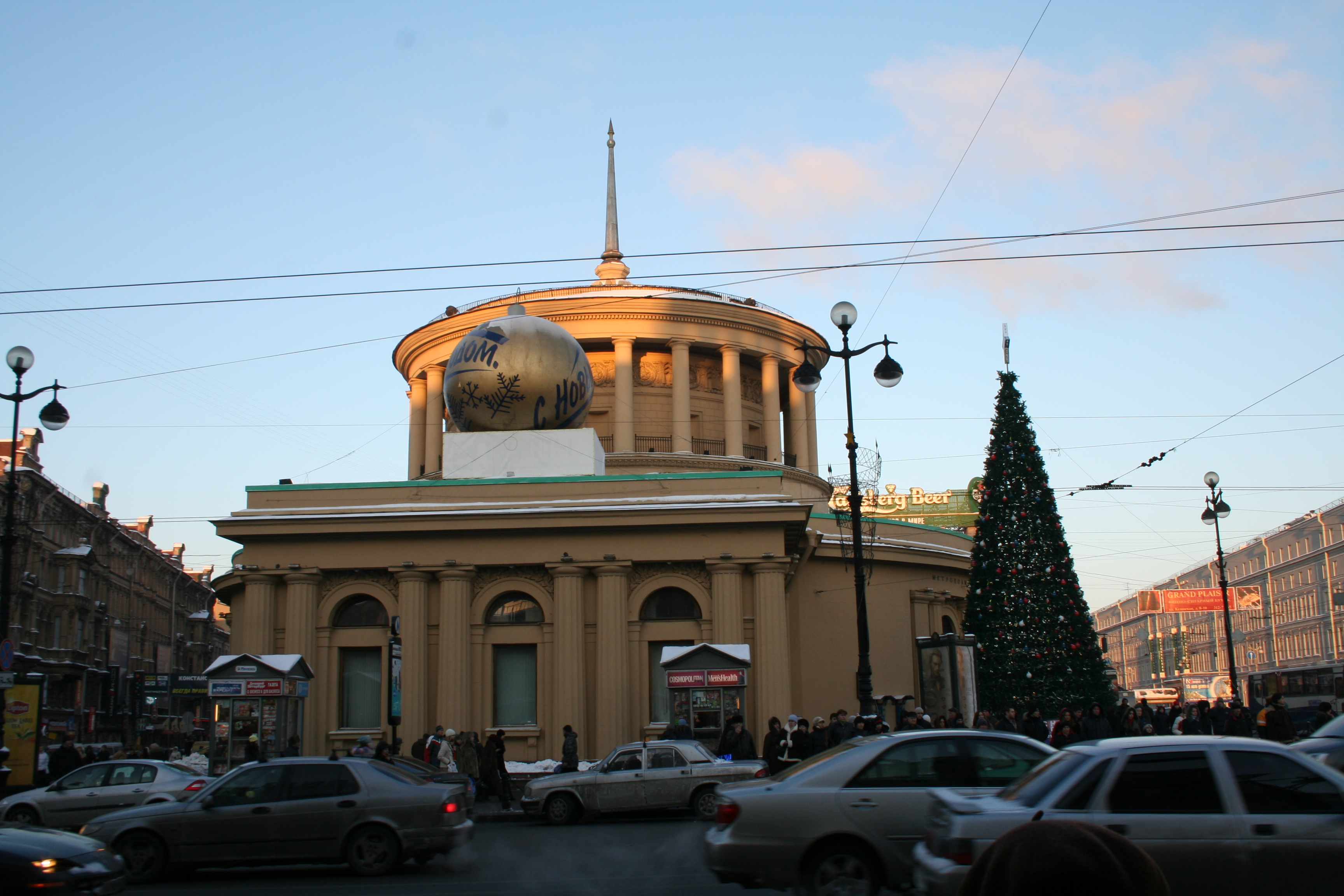 "Plosshad' Vosstaniya" subway station, St. Petersburg, Russia